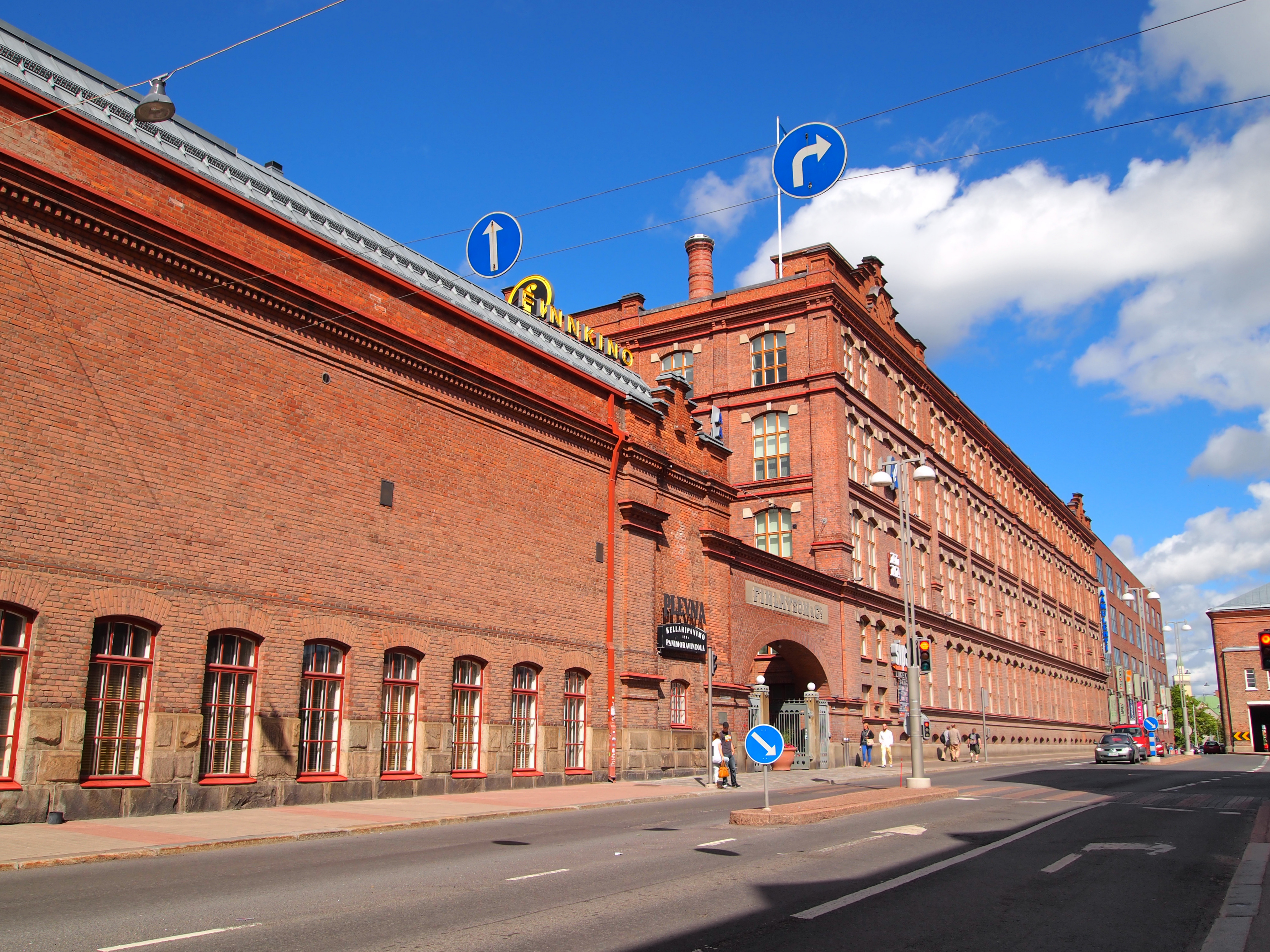 Building Finlayson on the street Satakunnankatu in Tampere. This photograph was taken with an Olympus E-PL1